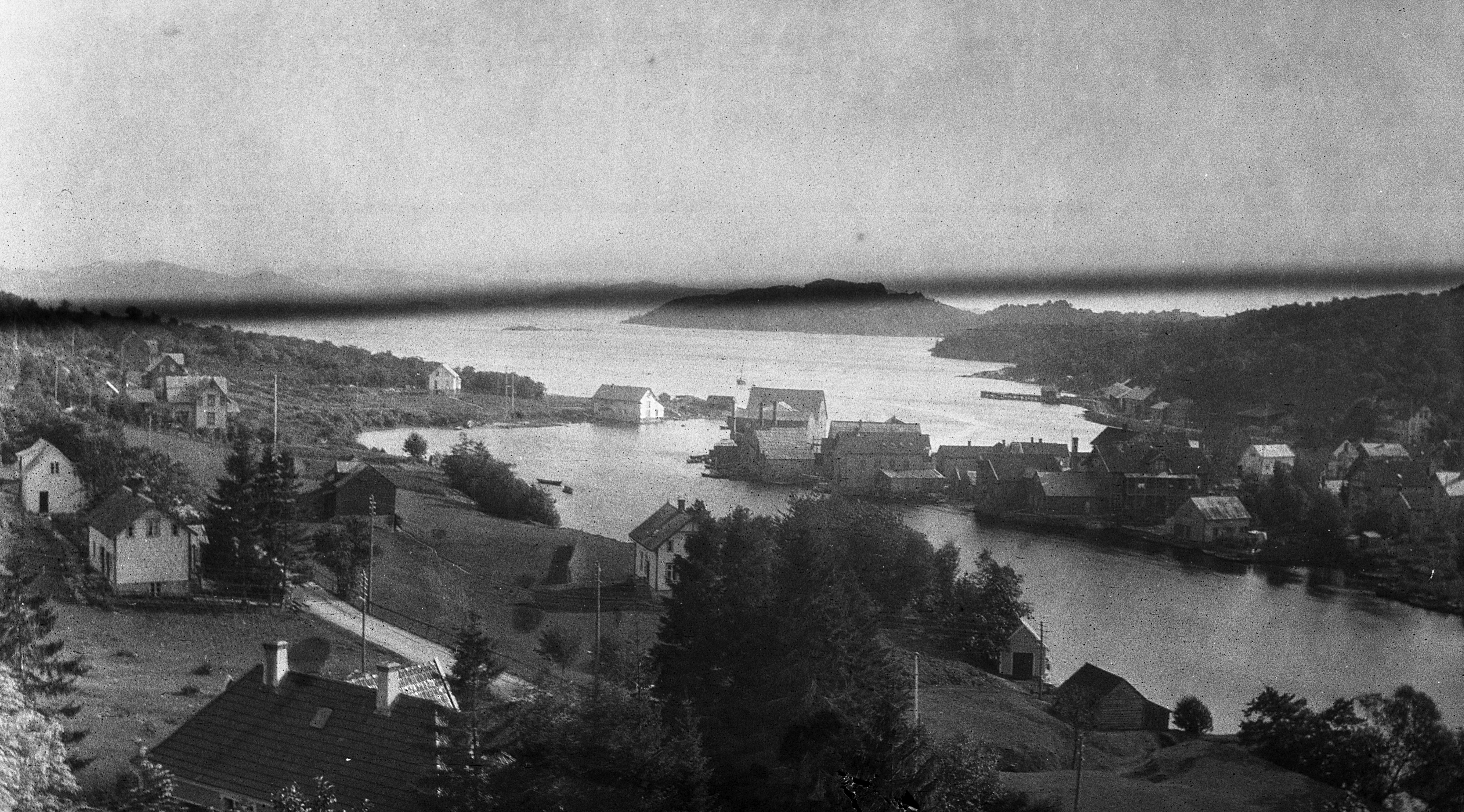 Identifier: SFFf-100585.271138 Photographer: Kristian Berge. Medium: Cellulose nitrate negative. Extent: 7 x 12 cm. Original caption (from Berge's negative album): 1916, Osøren. Os.